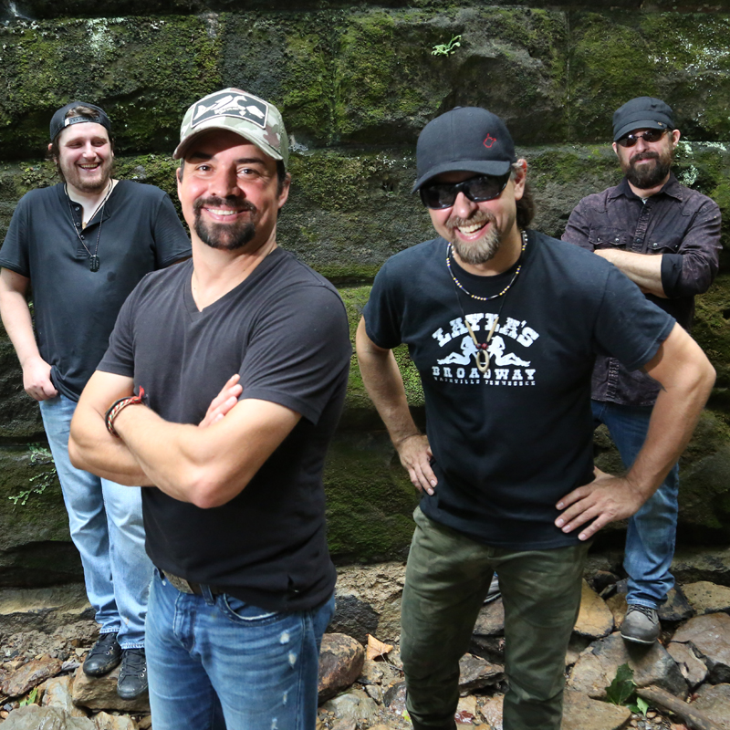 The Davisson Brothers Band based out of Nashville, TN but from Clarksburg, West Virginia.